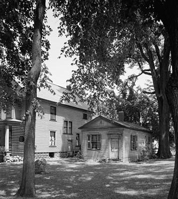 Joshua R. Giddings Law Office, Chestnut & Walnut Streets, Jefferson (Ashtabula County, Ohio) (cropped)